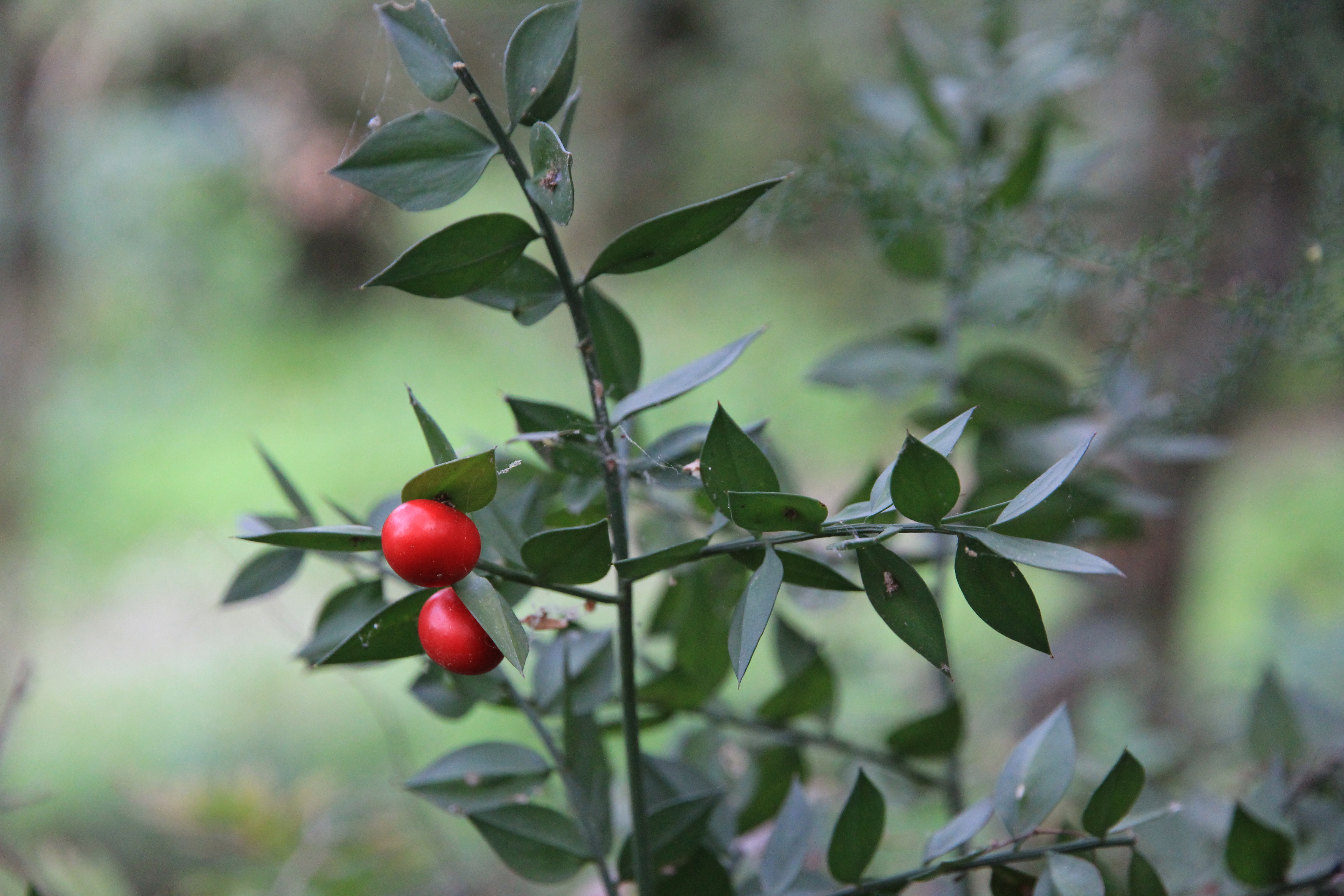 Ruscus aculeatus?